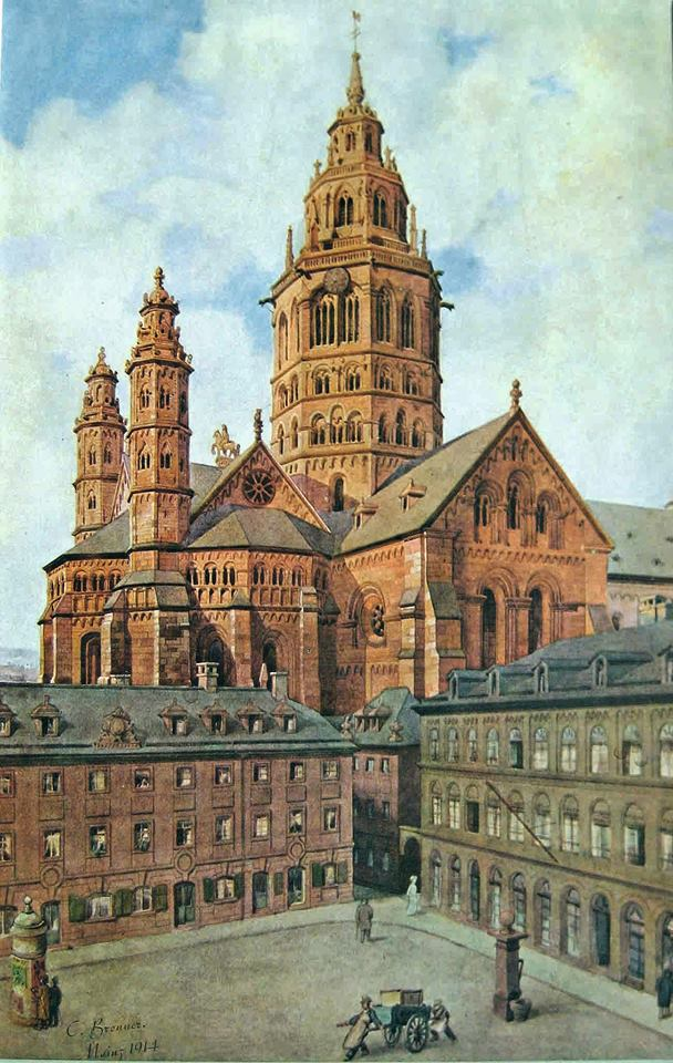 Carl Bronner: Mainz, Leichhof and Western aisle of Mainz cathedral